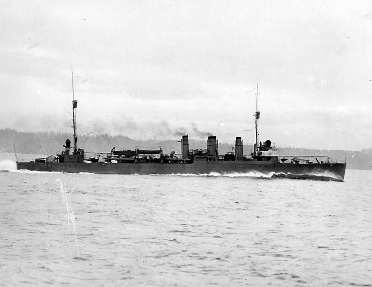 The U.S. Navy destroyer USS Gwin (DD-71) steaming at high speed while running trials in Puget Sound, Washington, circa early 1920.